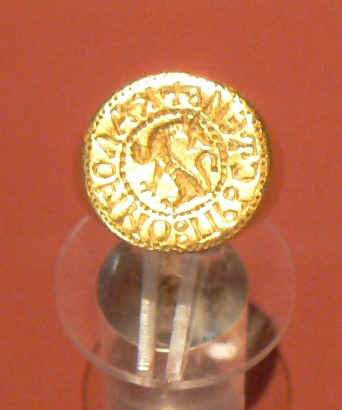 The Seal-ring of Tzar Kaloyan. Exhibit of the National History Museum of Bulgaria